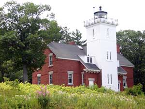 The Forty Mile Point Light Station, located in Presque Isle County, Michigan, United States, is listed on the US National Register of Historic Places (NRHP).